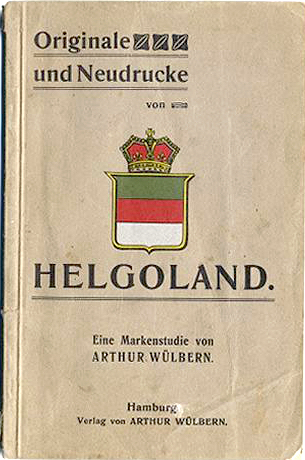 Cover of the book Originale und Neudrucke von Helgoland by Arthur Wülbern on stamps of Helgoland.